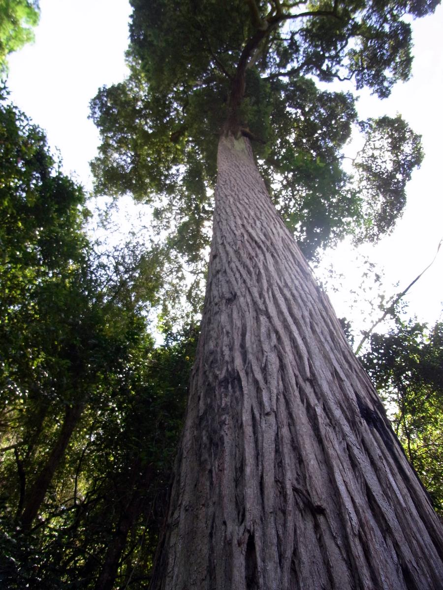 Sassafras Gully, Springwood, NSW, Australia. Syncarpia glomulifera